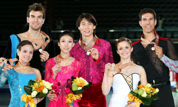 The pairs podium at the 2011 Four Continents Championships. From left: Meagan Duhamel / Eric Radford (2nd), Pang Qing / Tong Jian (1st), Paige Lawrence / Rudi Swiegers (3rd)